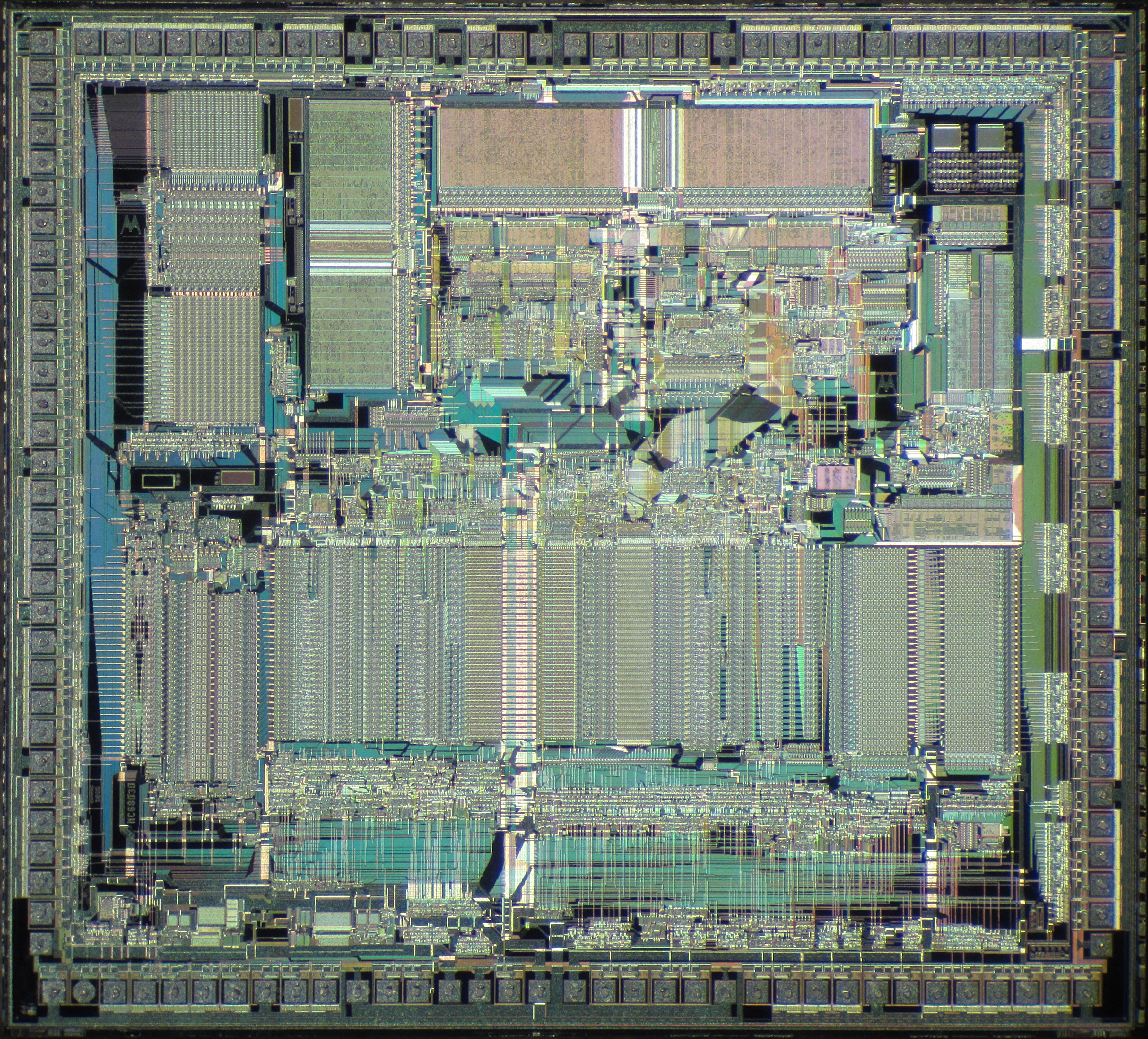 Die shot of Motorola 68030 microprocessor (MC68030FE16B).